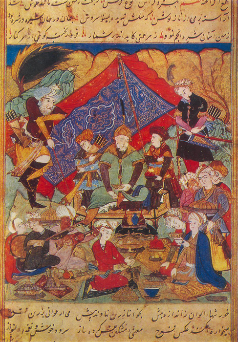 Timur feasts in the environs of Samarkand.“Zafar-nama”. MS IOS AS Uzbek SSR, 4472, f. 288a. Samarkand